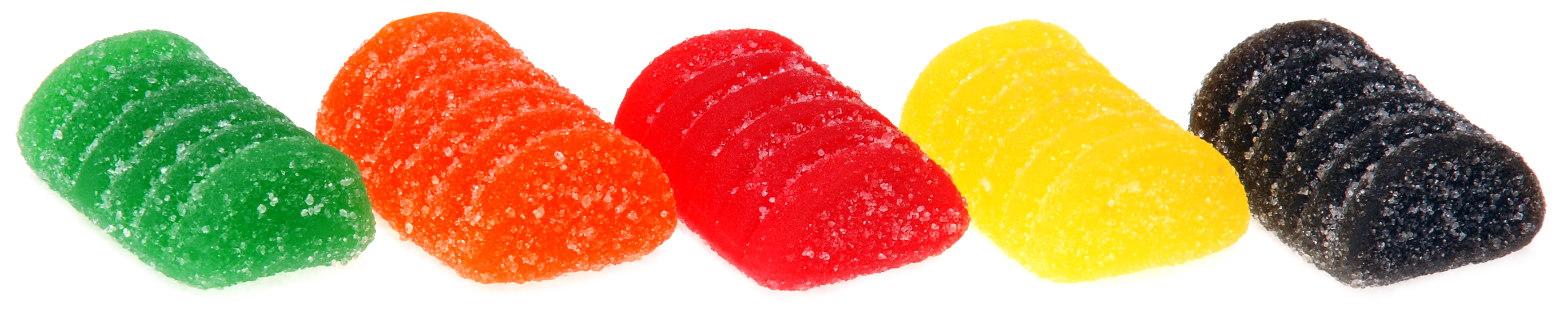 Chuckles jelly candies, as made by Farley's and Sathers Candy Company.